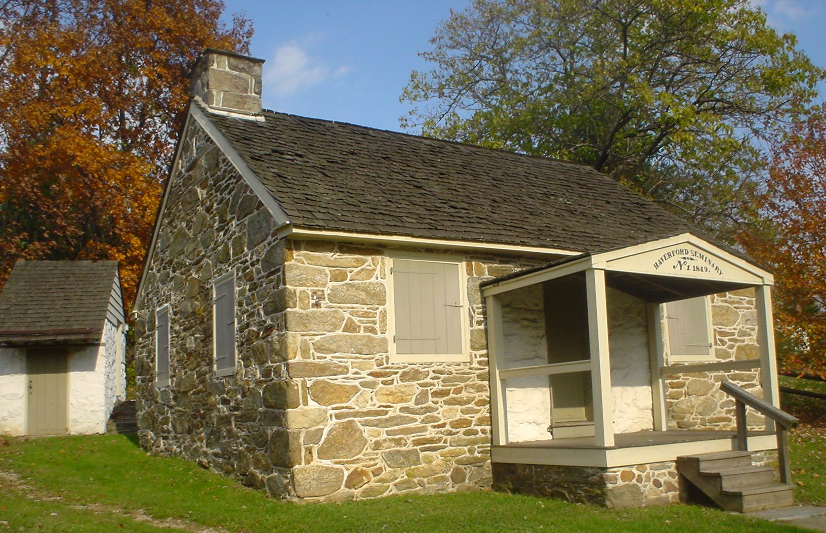 Federal School building in Radnor Twonship, Delaware Co., PA. In NRHP.